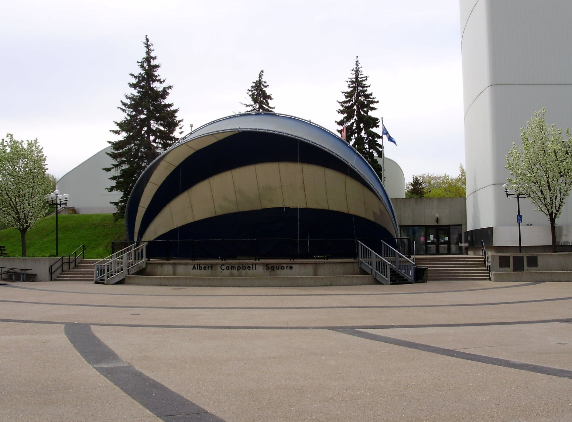 The performance stage at Albert Campbell Square in Scarborough, Canada, just north of the Scarborough Civic Centre.